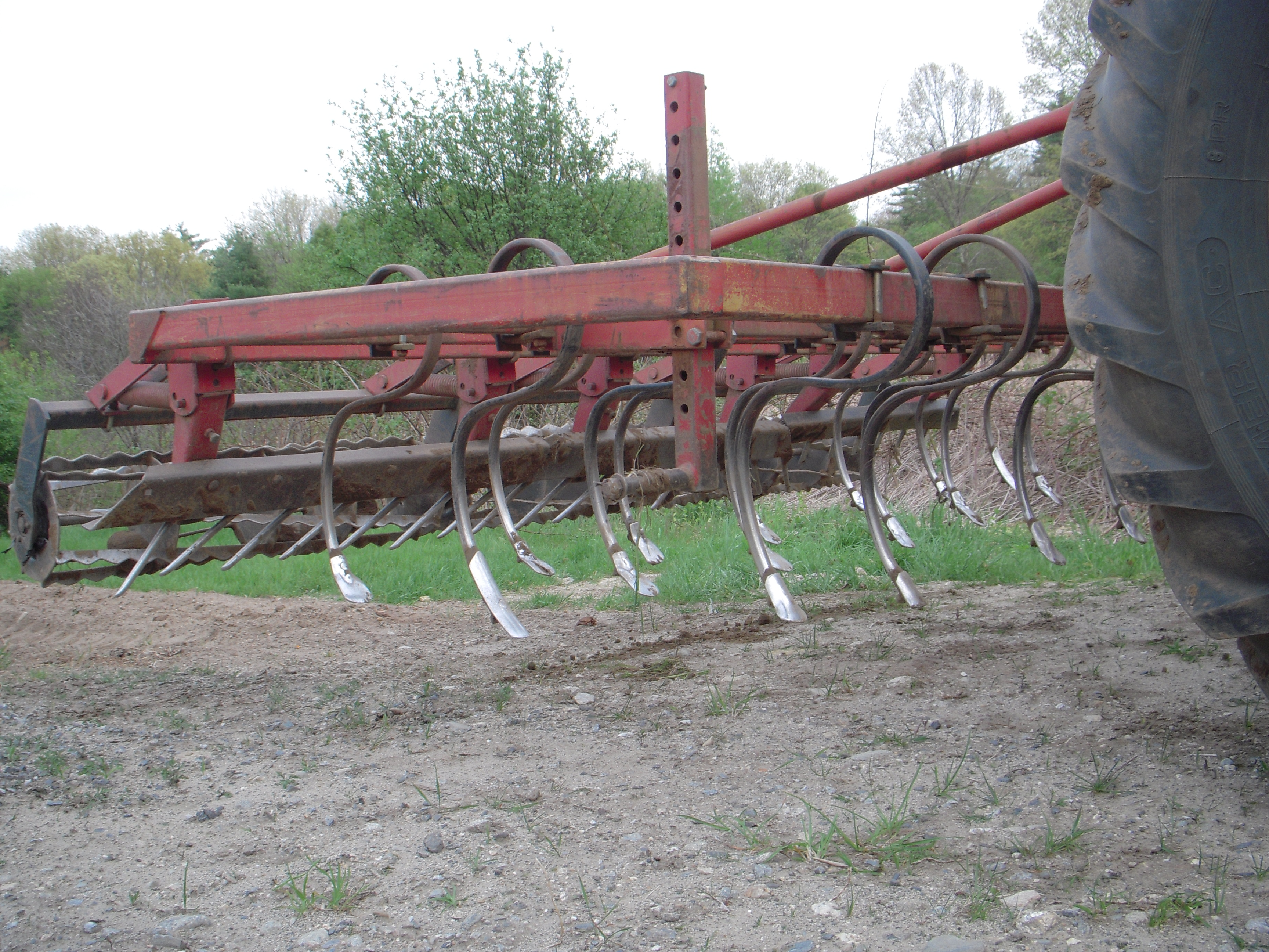 Perfecta II field cultivator (by UM, Unverferth Manufacturing Company) behind a John Deere tractor at a farm in Massachusetts, USA. This implement loosens the soil and fills in ruts from plowing.